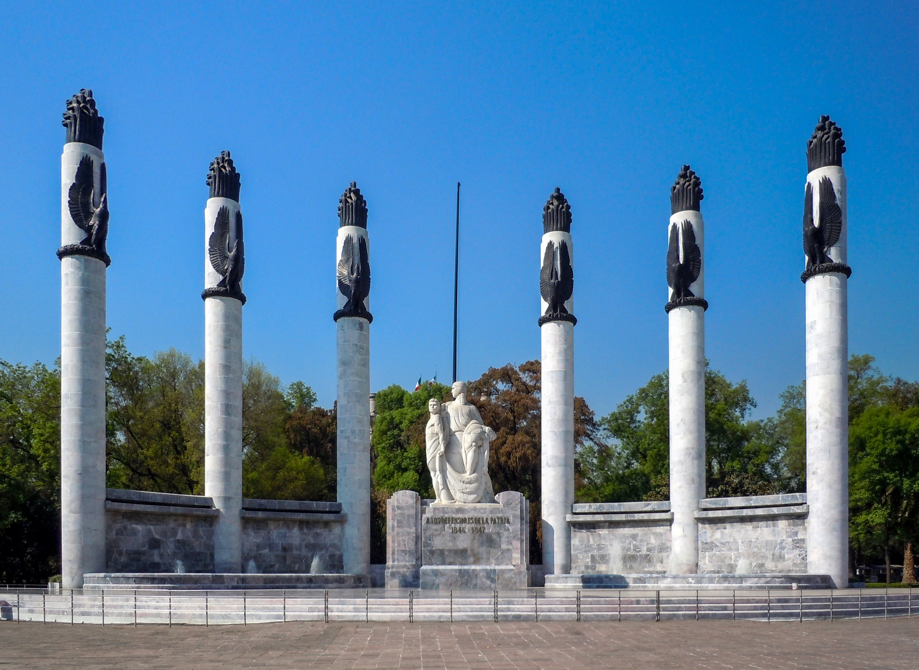 A tribute to the children heroes